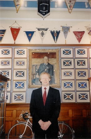 Derek Spence in the trophy room at Ibrox Stadium